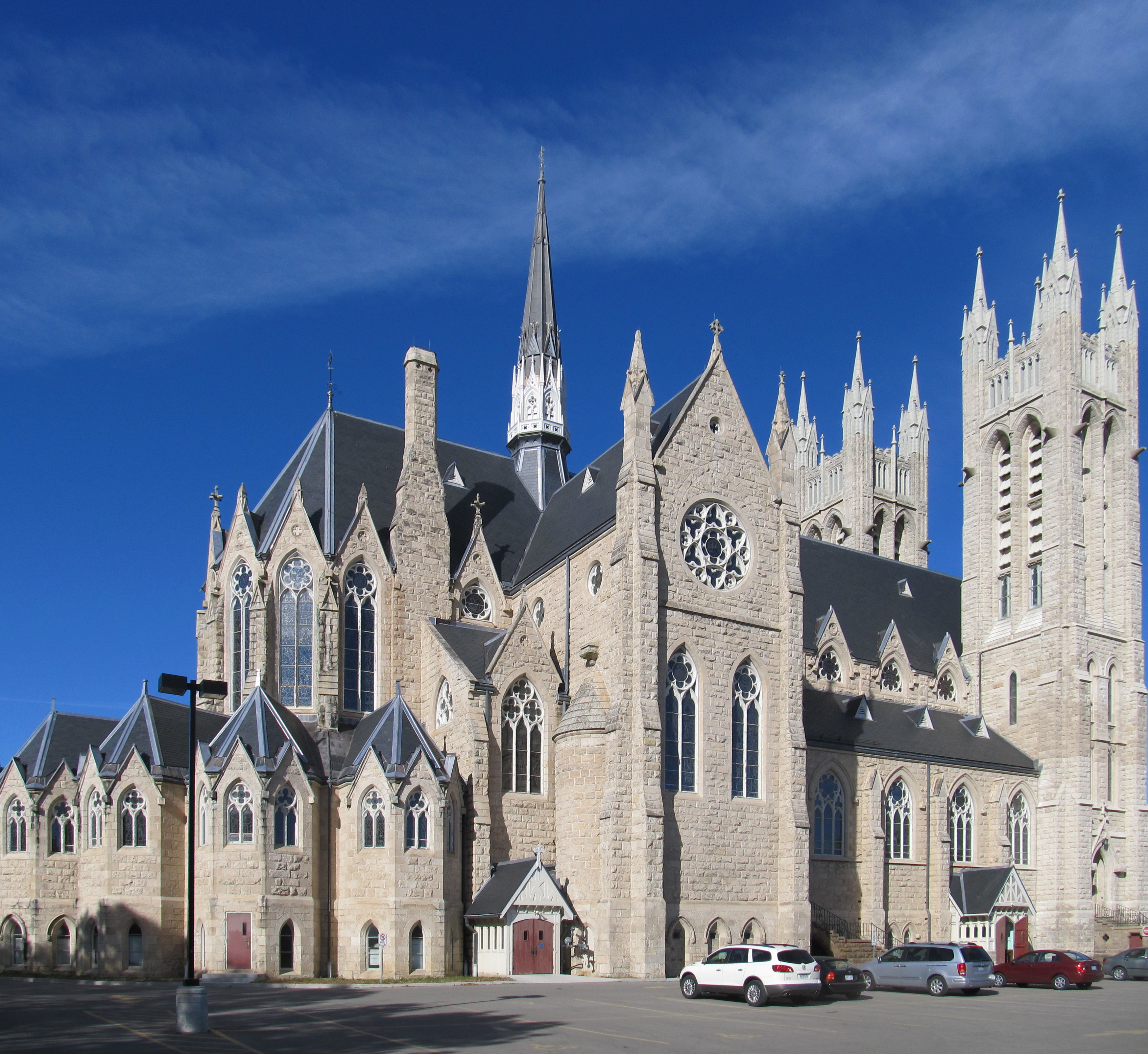 The Church Of Our Lady Immaculate in Guelph, Ontario, Canada.